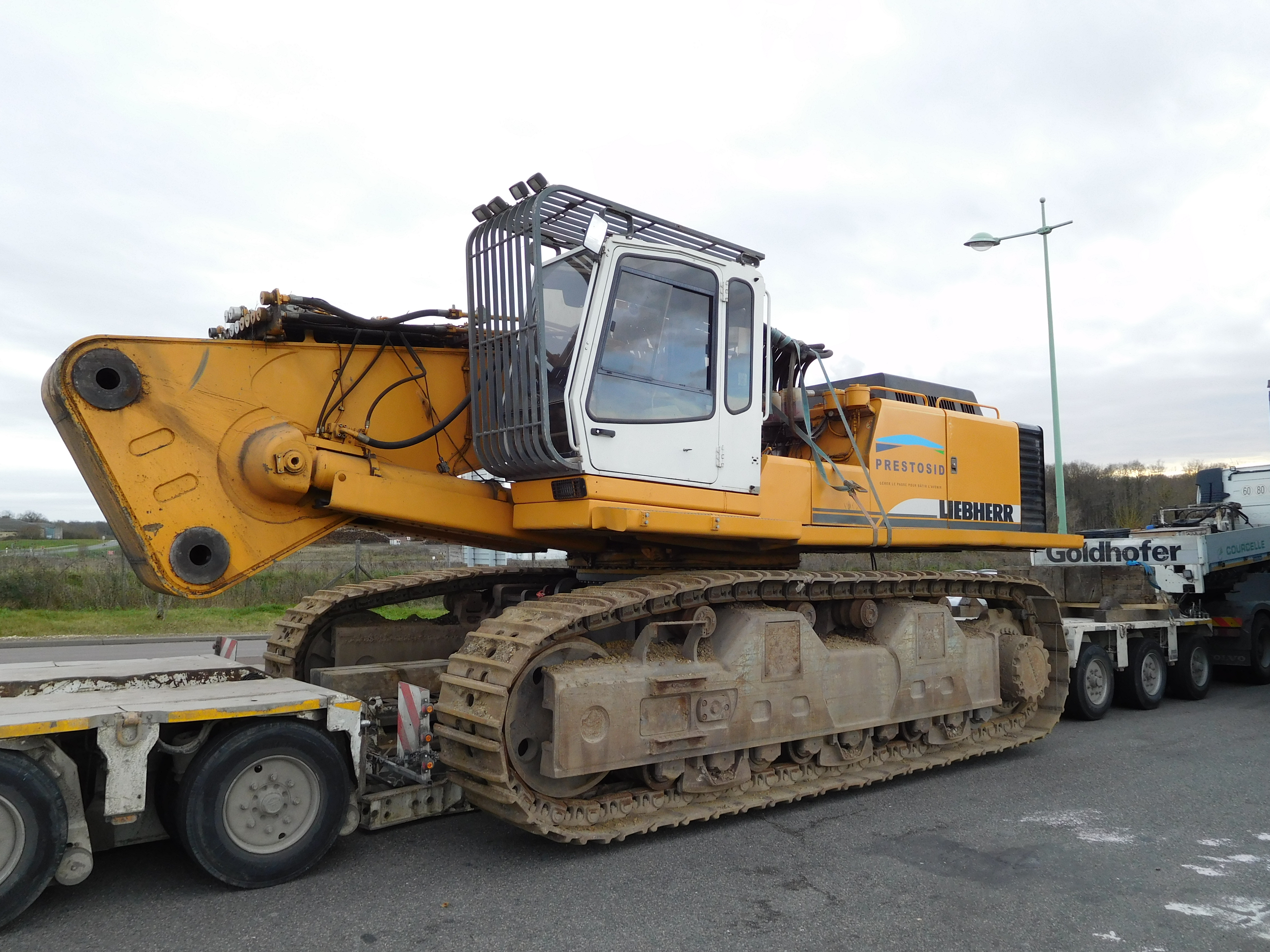 Liebherr R 974 B VH-HD Litronic demolition excavator on Goldhofer STHP/XLE 8 137-ton 3+5 axle extendable lowboy trailer.